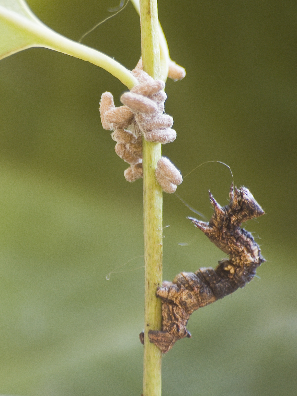 "A caterpillar of the geometrid moth Thyrinteina leucocerae with pupae of the Braconid parasitoid wasp Glyptapanteles sp."Full-grown larvae of the parasitoid egress from the caterpillar and spin cocoons close by their host. The host remains alive, stops feeding and moving, spins silk over the pupae, and responds to disturbance with violent head-swings (supporting information). The caterpillar dies soon after the adult parasitoids emerge from the pupae. Photograph by Prof. José Lino-Neto."